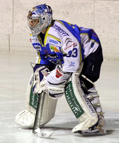 Ronan Quemener, French ice hockey player (goalkeeper) with Gap HC jersey